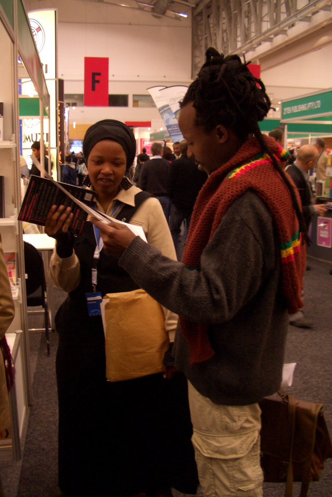 Cape Town Book Fair 2008 - Chimurenga Stand